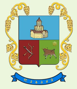 Coat_of_Arms_of_Labadze